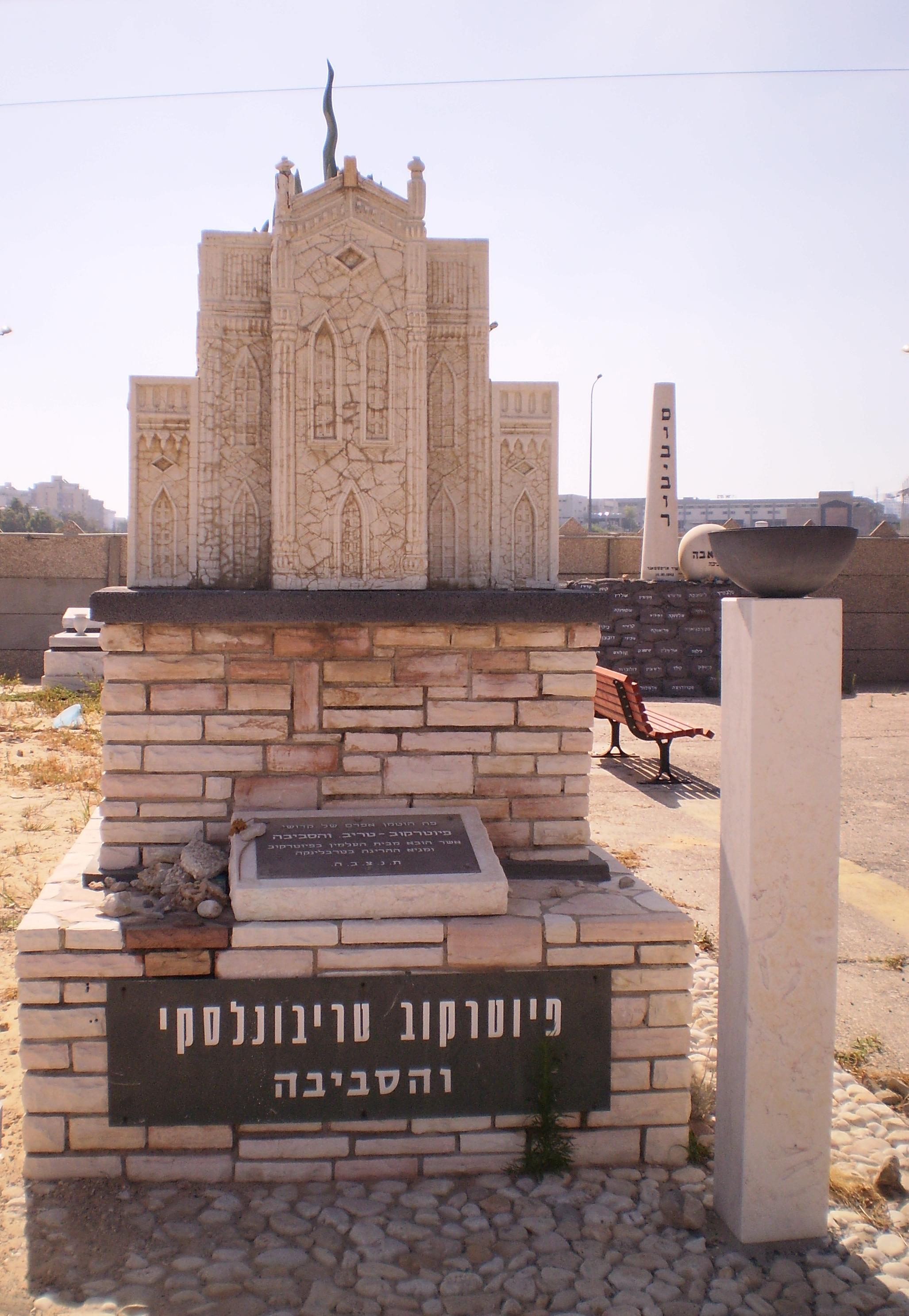 Piotrków Trybunalski Jewery Holocaust memorial at Holon Cemetery